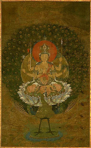 Peacock Myōō (Mayura Vidyaraja) (絹本著色孔雀明王像, kenpon choshoku kujaku myōōzō) from Ninna-ji, Kyoto dated to 11th century Northern Song Dynasty. Hanging scroll, 167.1 cm x 102.6 cm. Color on silk.